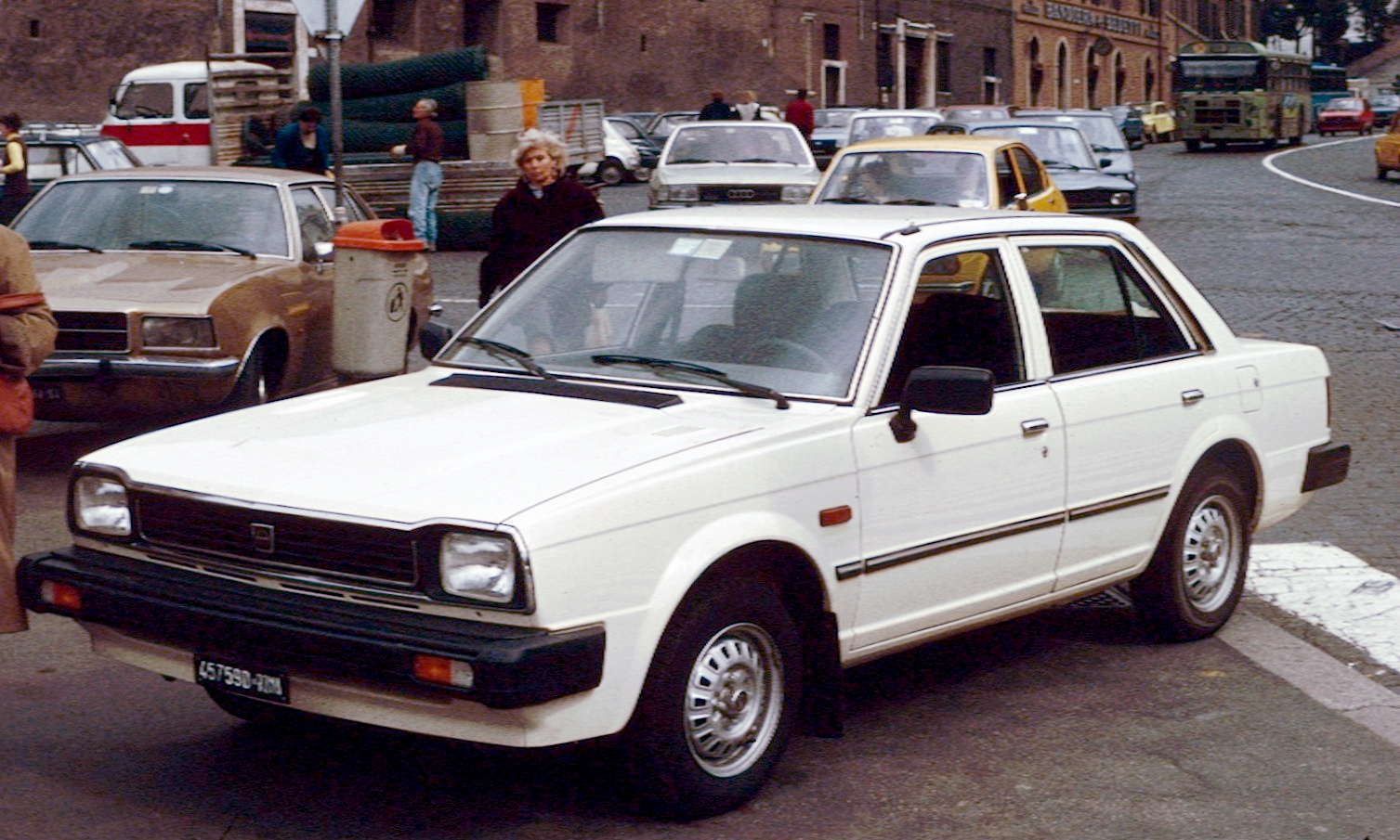 Triumph Acclaim when new in Rome